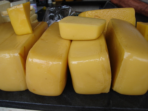 Butter-cheese in a public market at the city of Campina Grande, Brazil.